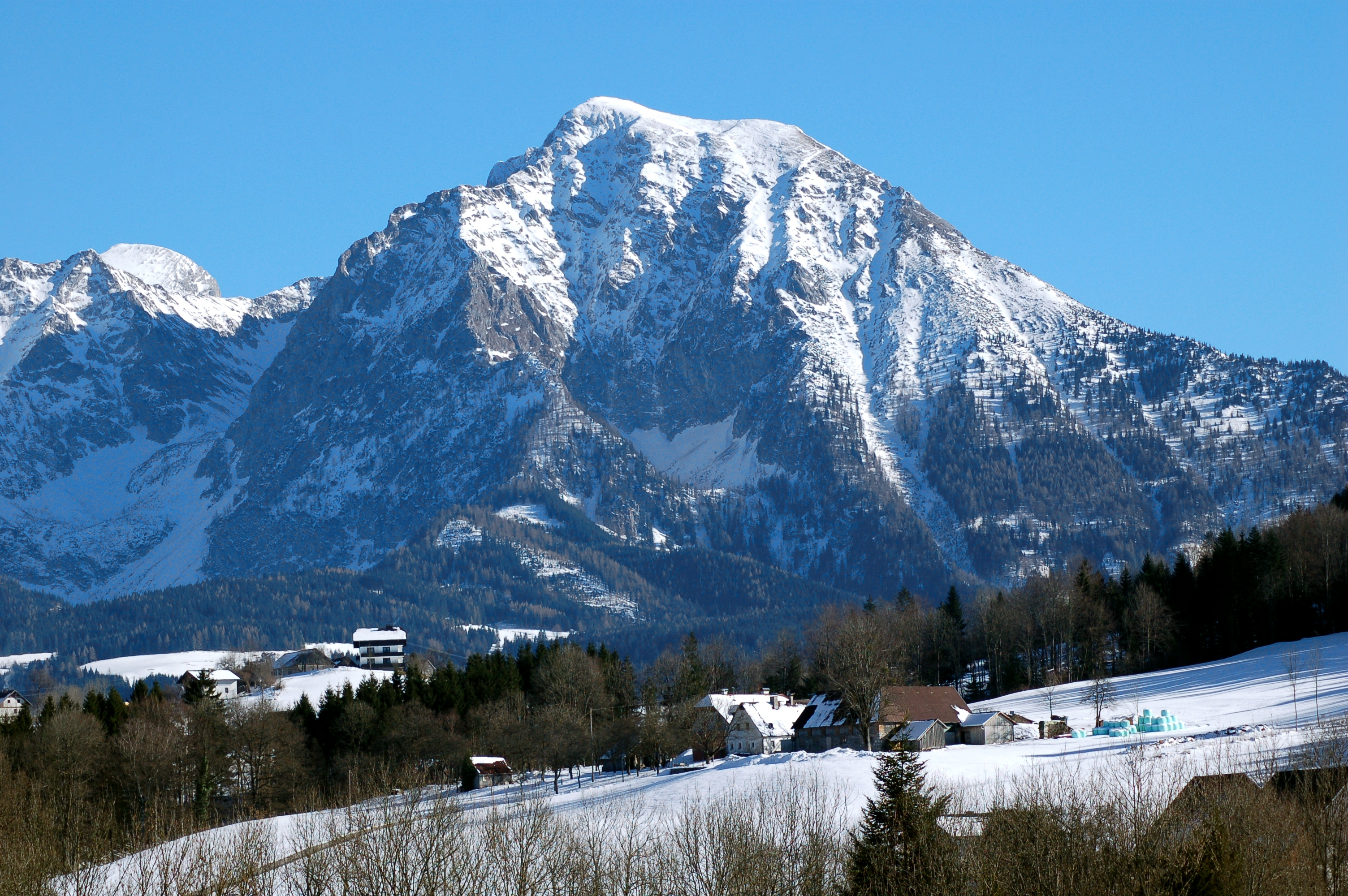 Großer Pyhrgas (2244m) seen from Roßleithen (NW).